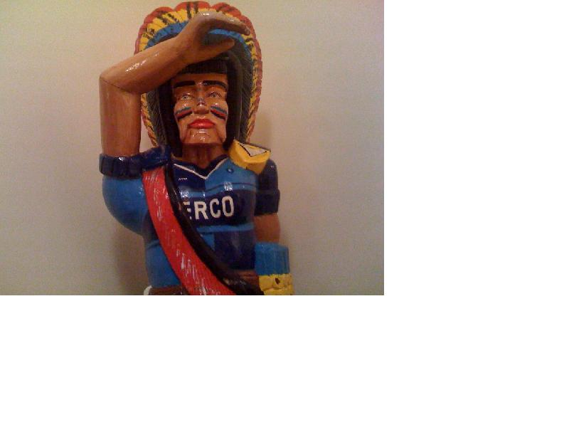 The Comanche